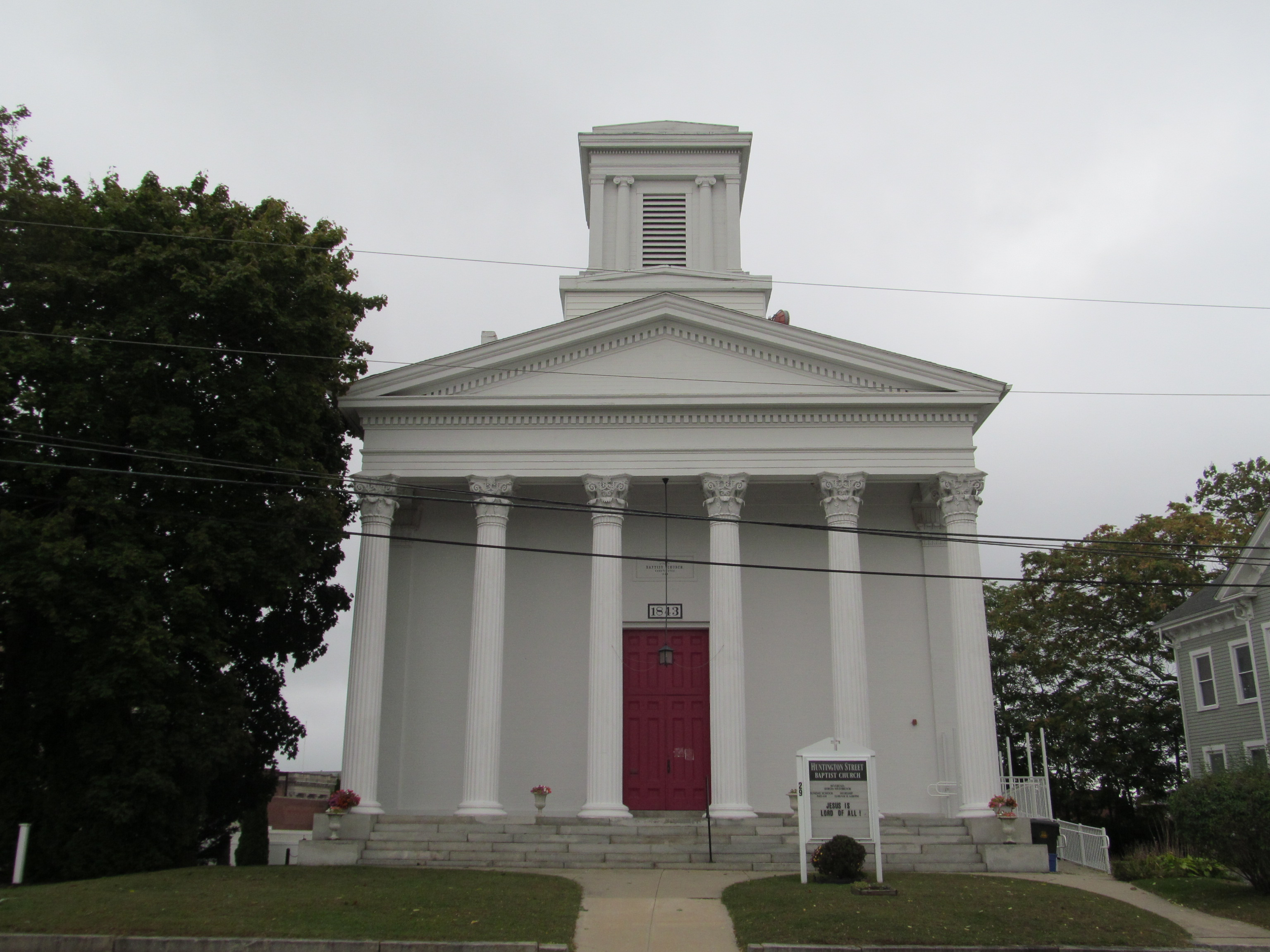 Huntington Street Baptist Church, New London Connecticut